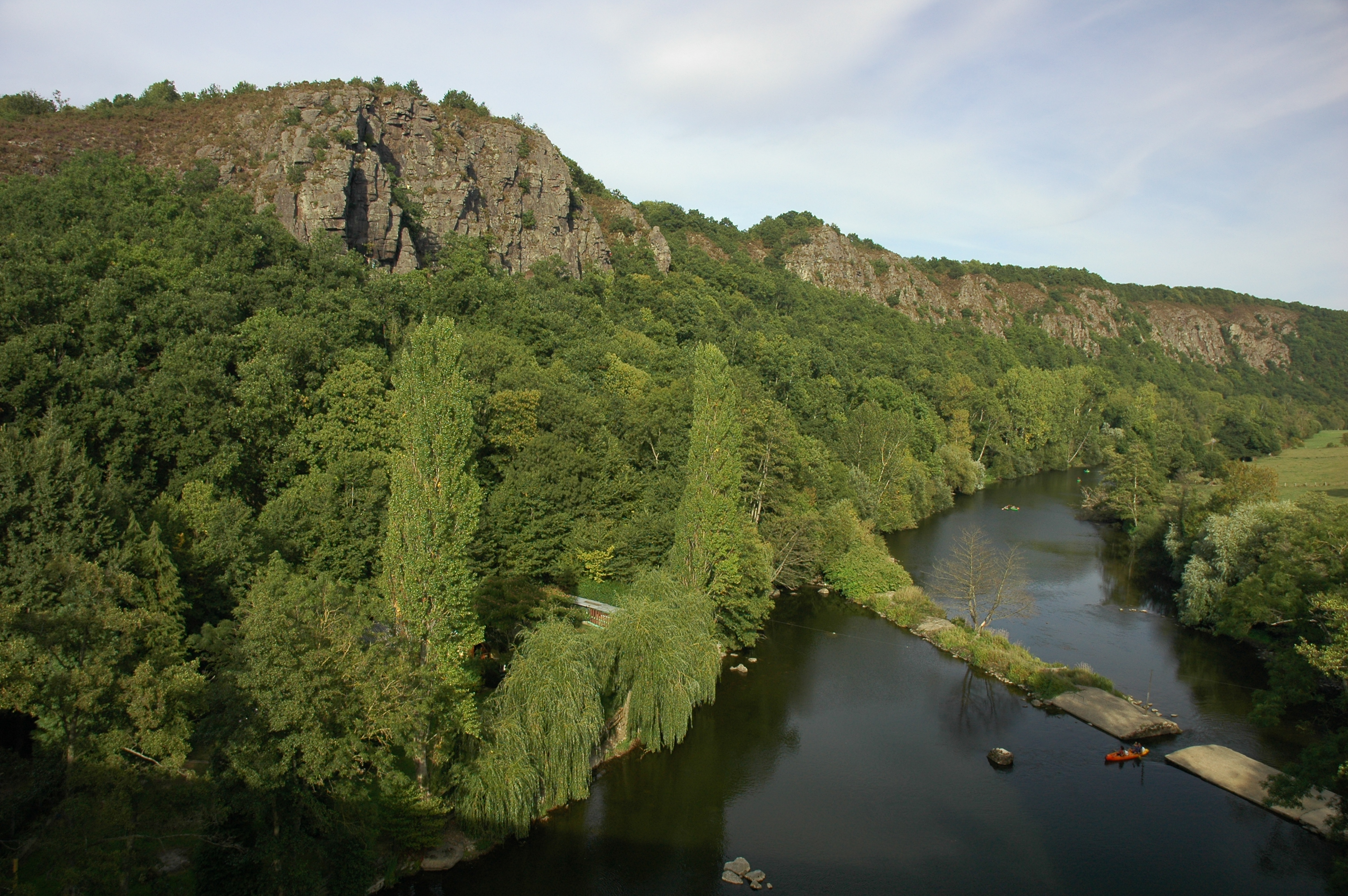 Clécy Calvados France